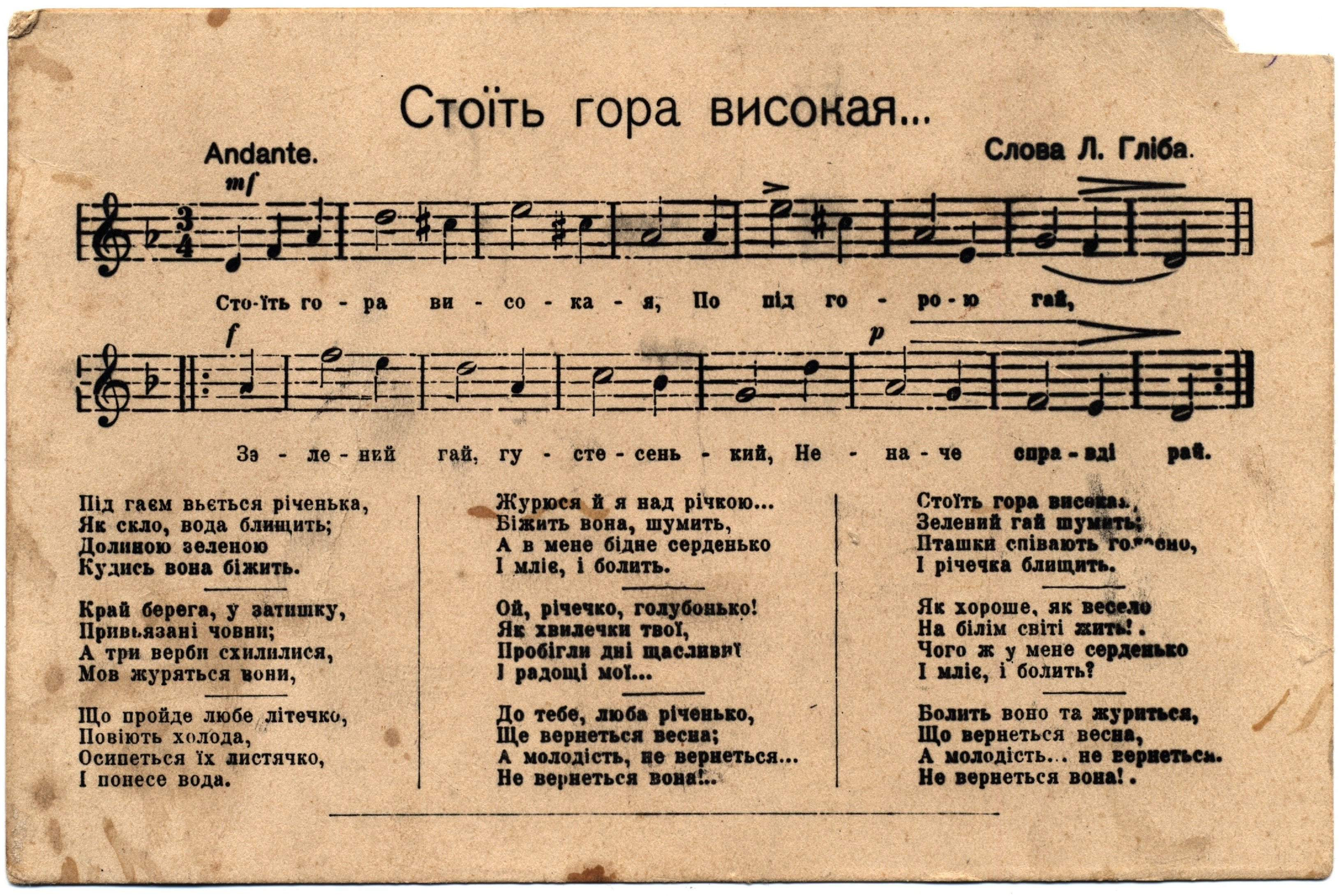 Postcard with lyrics and music of Ukrainian folk song.